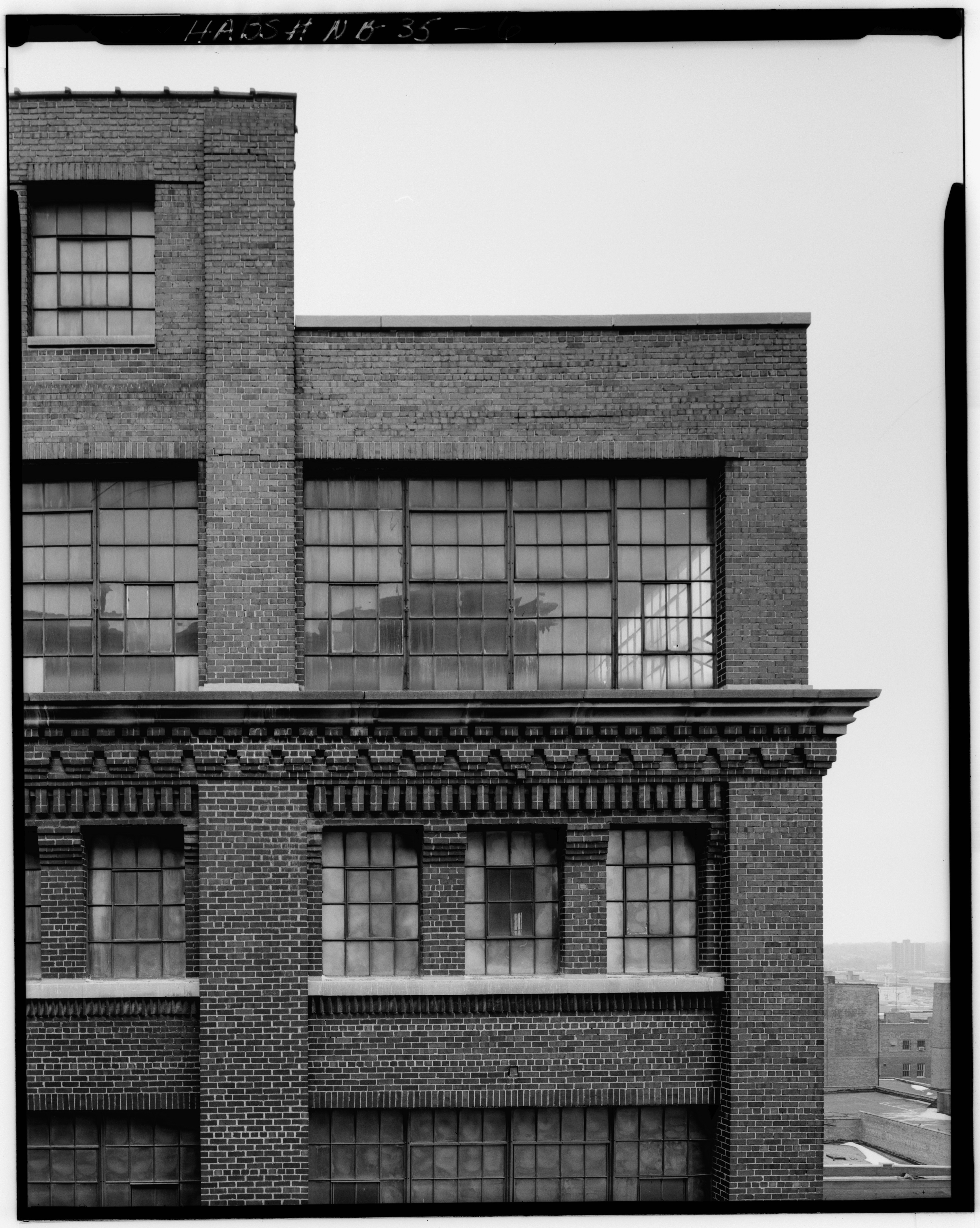 A view of the top three floors of the now demolished M. E. Smith Building in Omaha, Nebraska. The building was originally built from 1919-20.